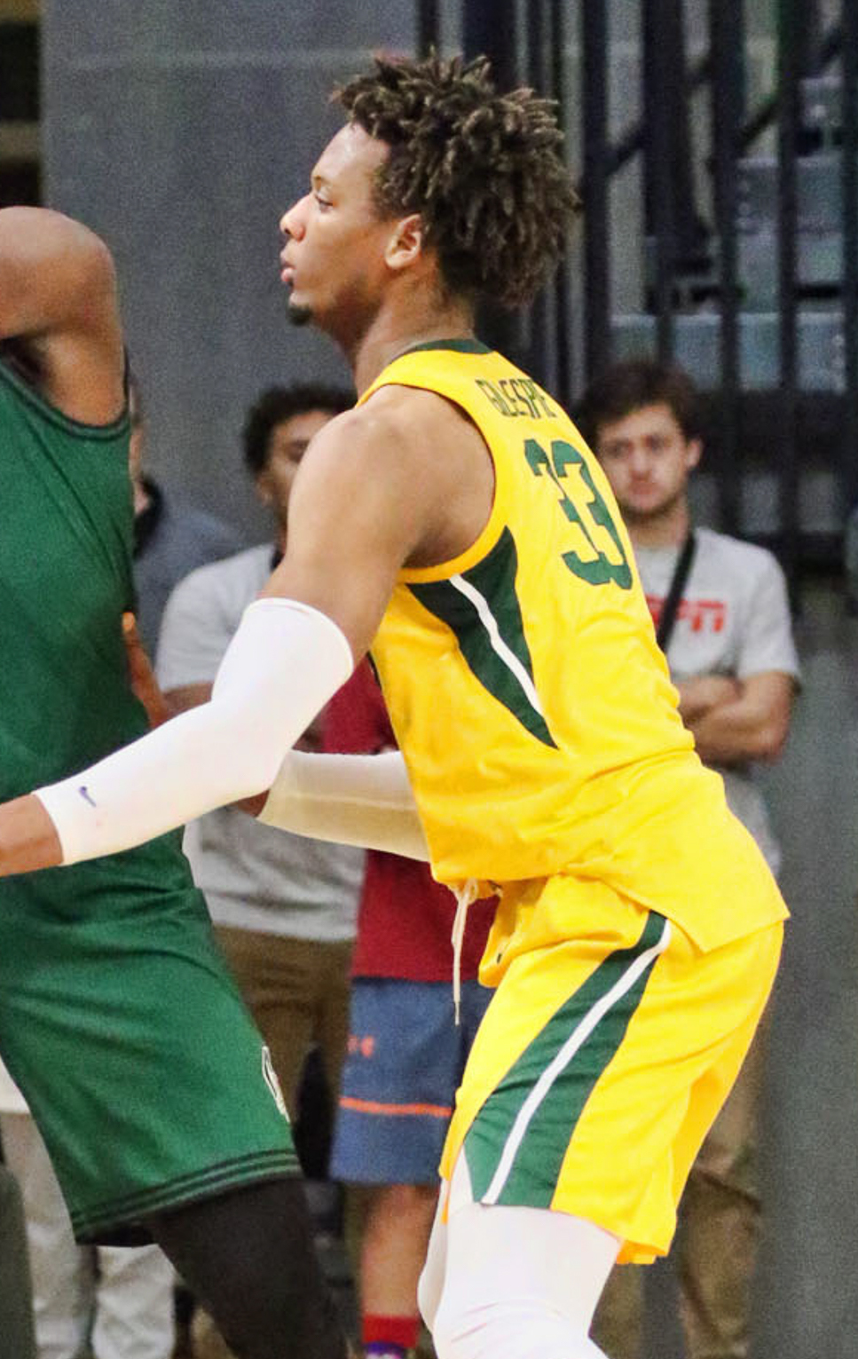 Freddie Gillespie guards Sylvester Ogbonda in November 2019